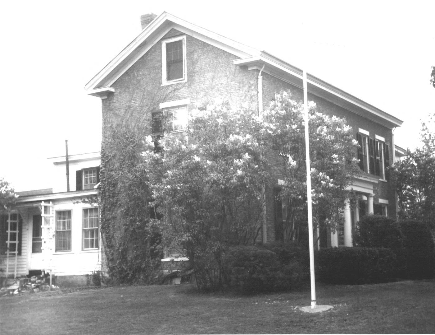 Liberty Farm, Worcester (Worcester County, Massachusetts) cropped This image or media file contains material based on a work of a National Park Service employee, created during the course of the person's official duties. As a work of the U.S. federal government, such work is in the public domain. See the NPS website and NPS copyright policy for more information.